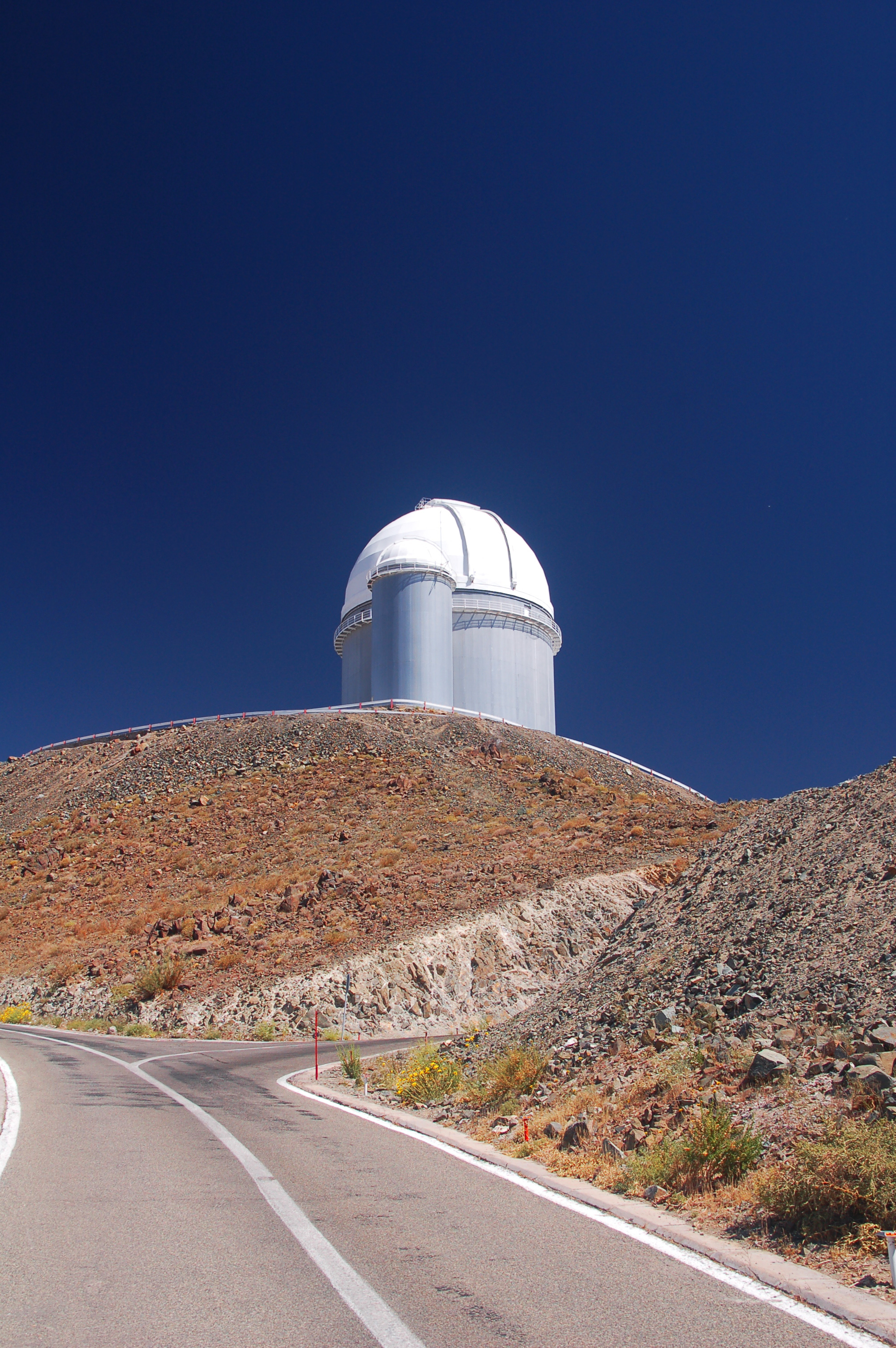 The 3.6-metre telescope at ESO's La Silla observatory from the road. La Silla, in the southern part of the Atacama desert of Chile was ESO's first observation site. The site is set 2400 metres above sea level, providing excellent observing conditions. ESO operates the 3.6-m telescope, the New Technology Telescope (NTT), and the 2.2-m Max-Planck-ESO telescope at La Silla. La Silla also hosts national telescopes, such as the 1.2-m Swiss Telescope and the 1.5-m Danish Telescope.